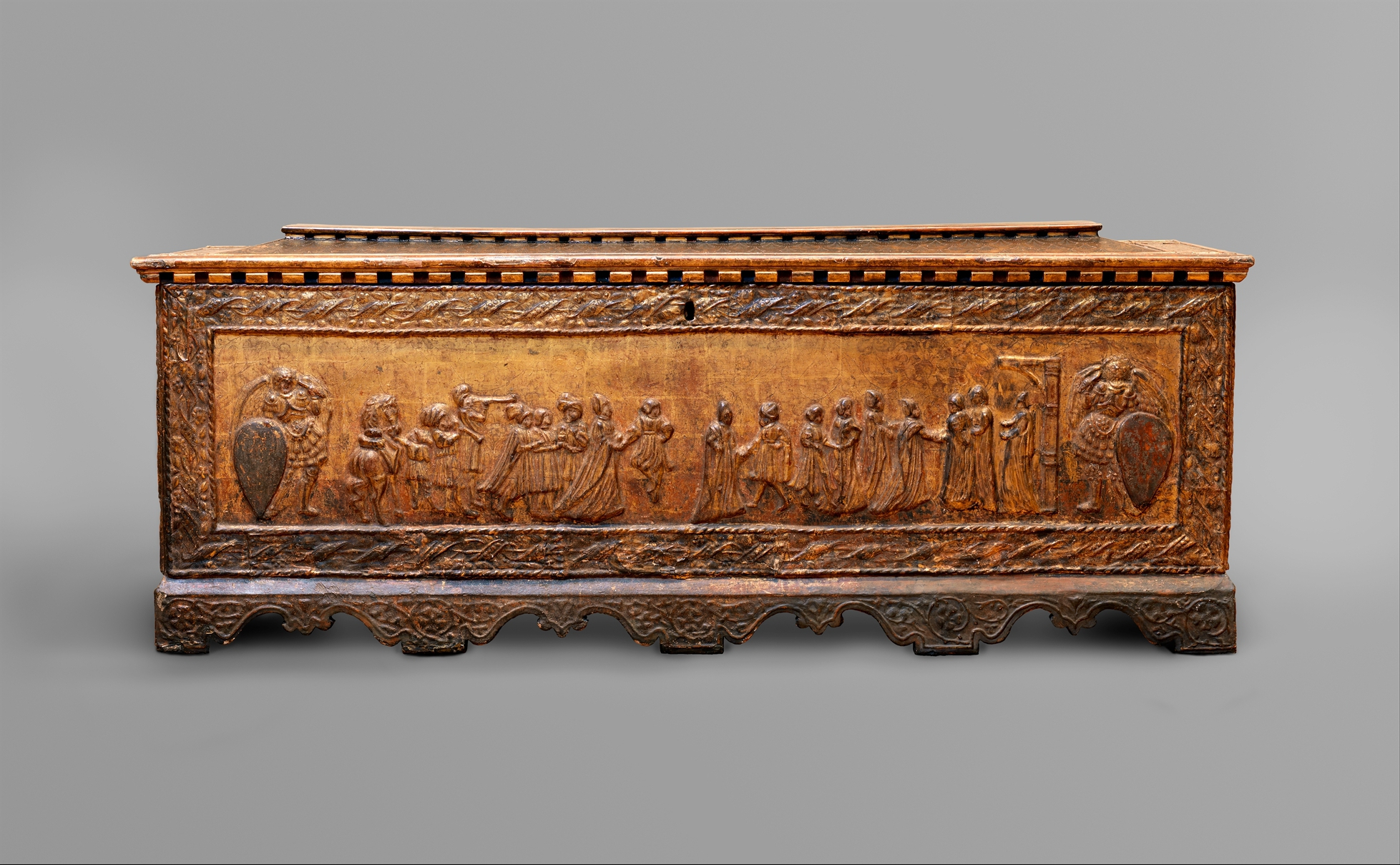 Italian, Florence; Cassone; Woodwork-Furniture